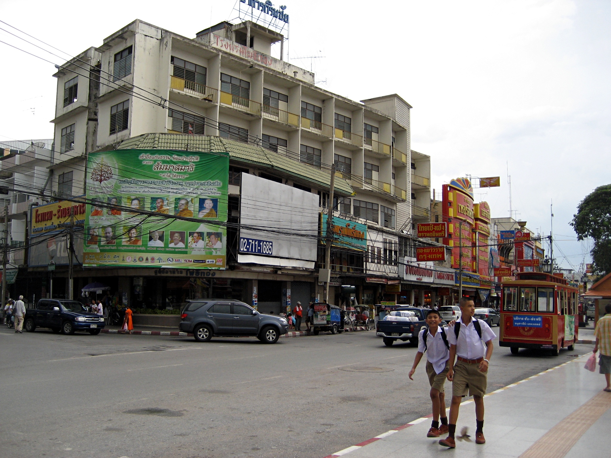 A view of downtown Korat City (Nakhon Ratchasima) in Thailand.